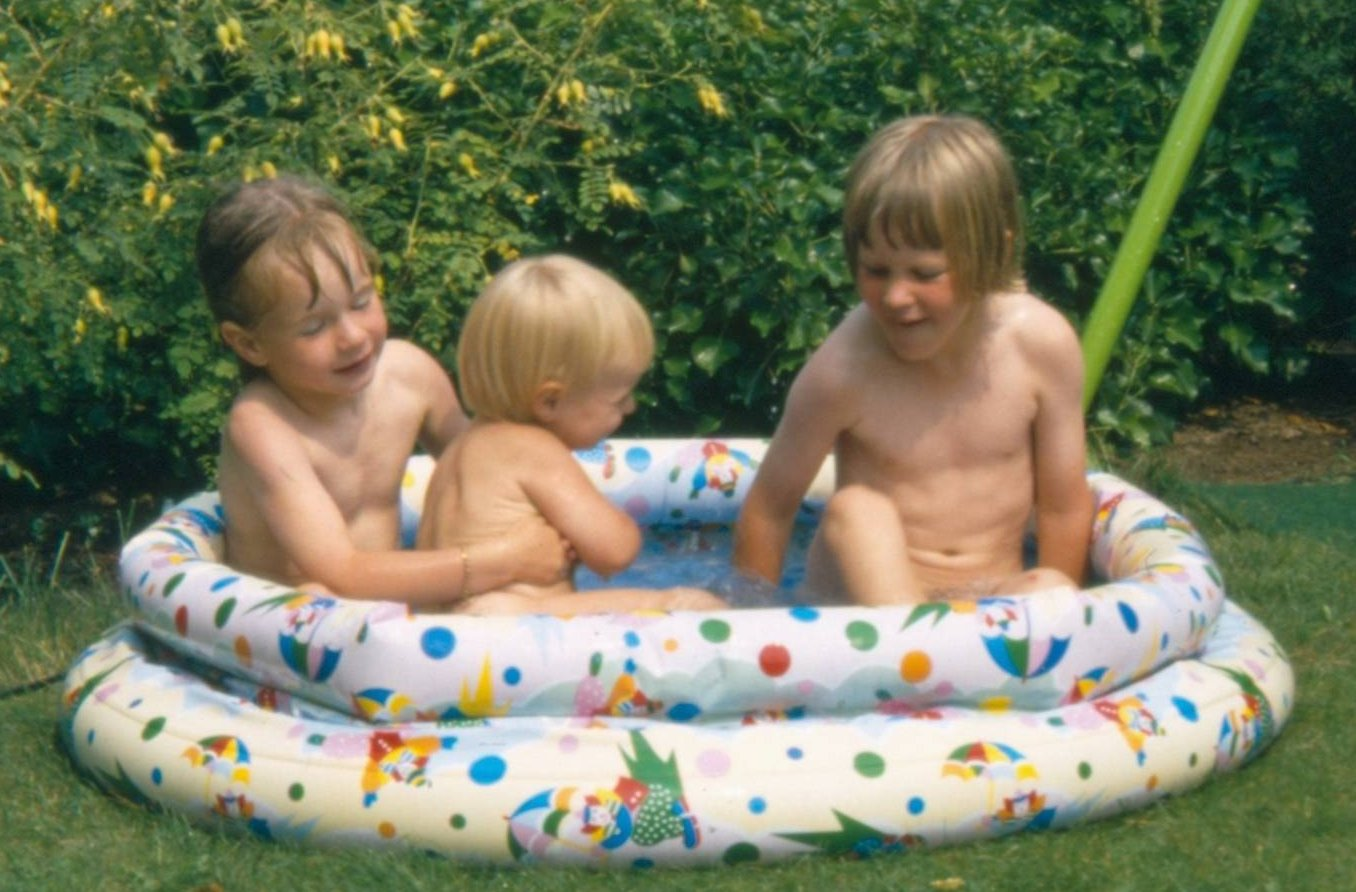 Garden playpool